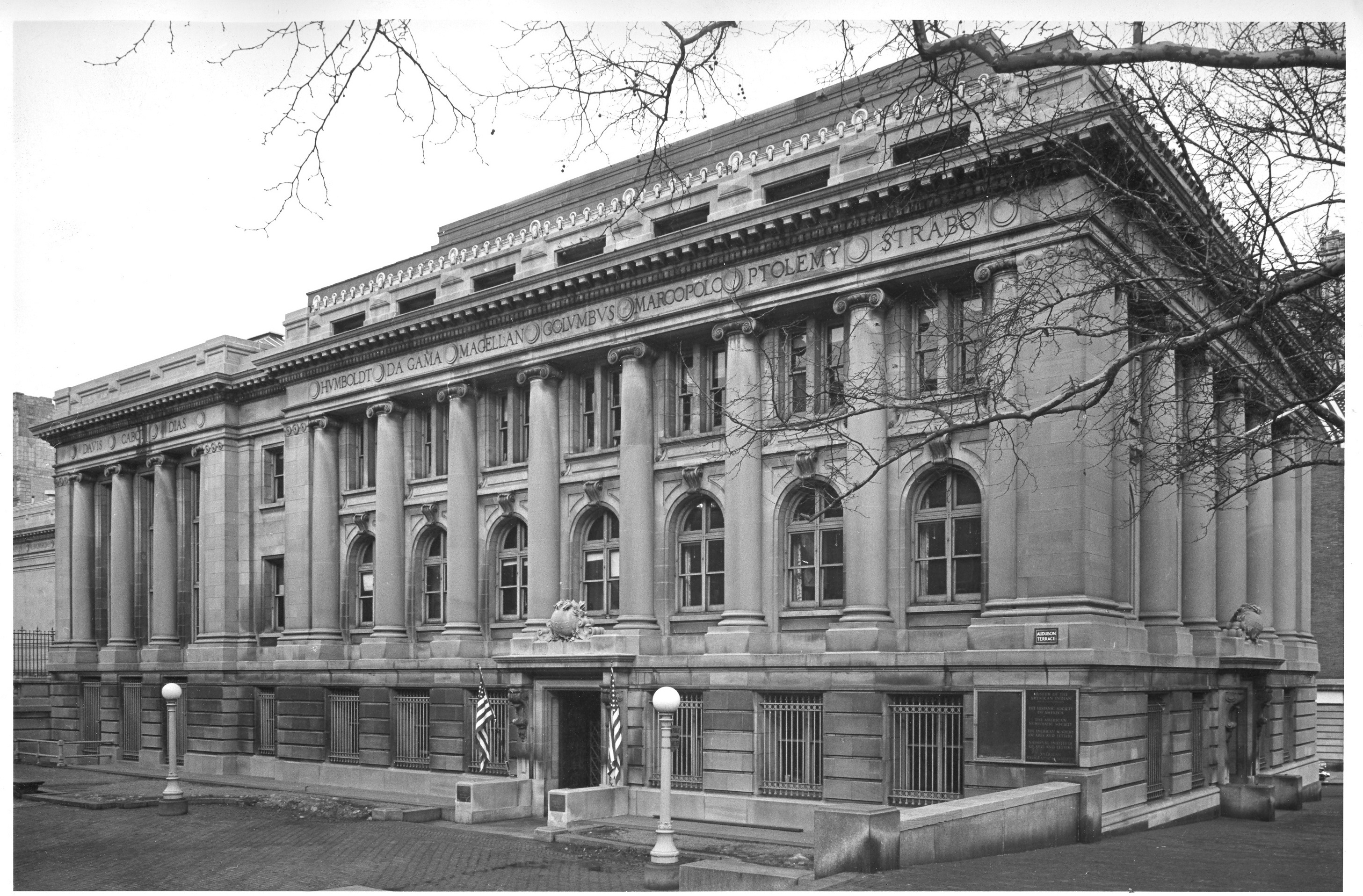 Archival Photo of 156th Broadway